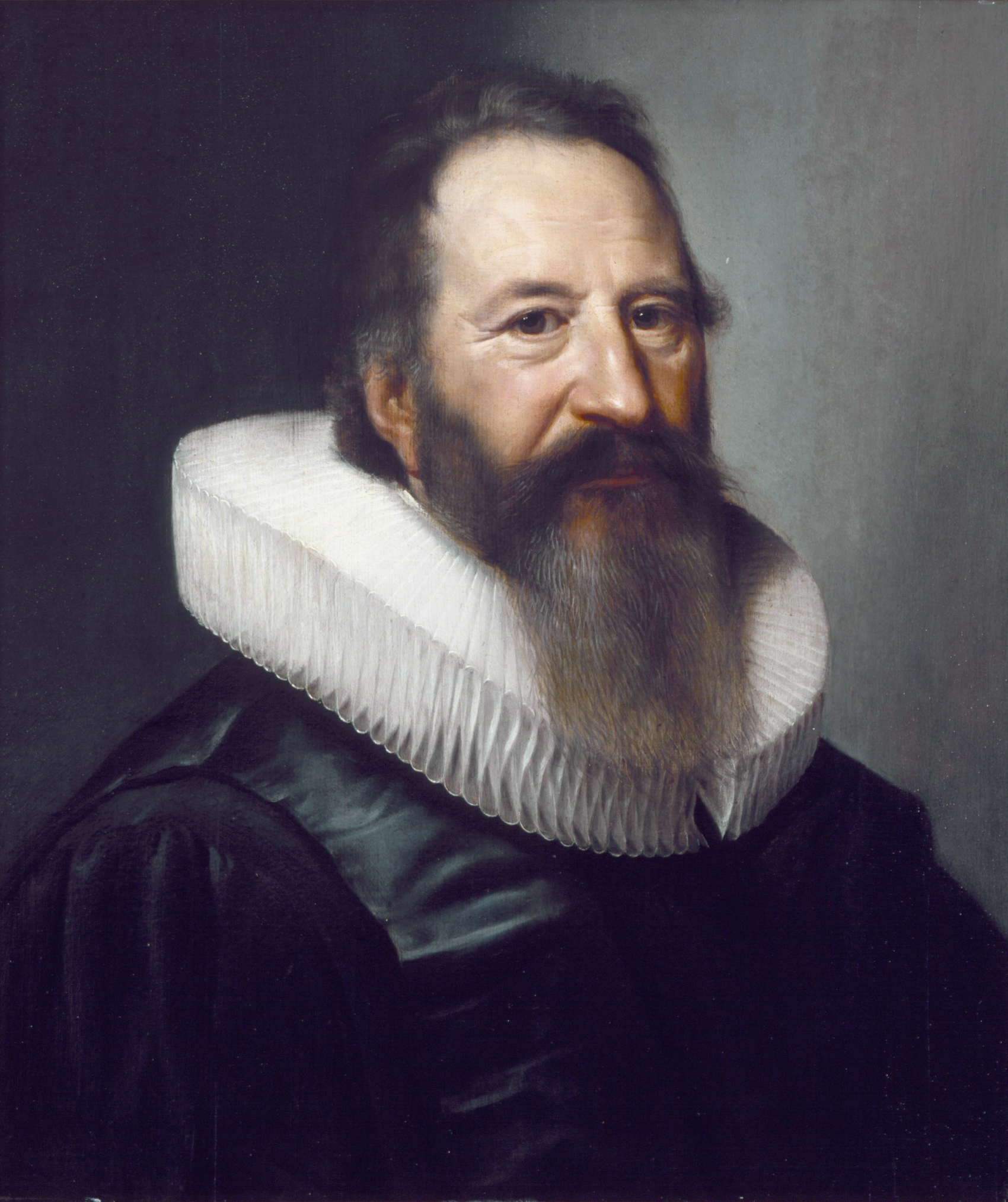 Gerardus Johannes Vossius (1577-1649) oil on panel 58.3 x 51 cm inscribed (verso): GERH.JOH. VOSSIUS CANONICUS CANTUARIENSIS PROFESSOR HISTORIARII AMSTELO...AET LX Ao 1636